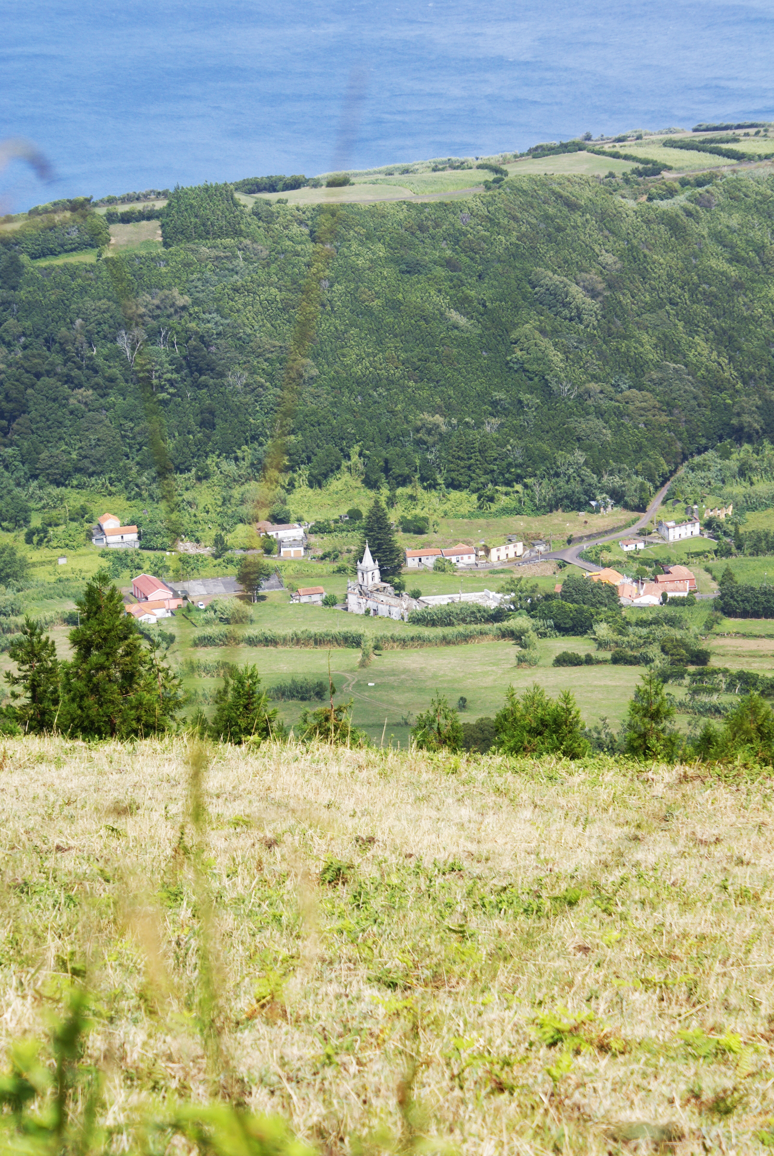 The parochial church of Ribeirinha, civil parish of Ribeirinha, municipality of Horta (Azores), Portugal